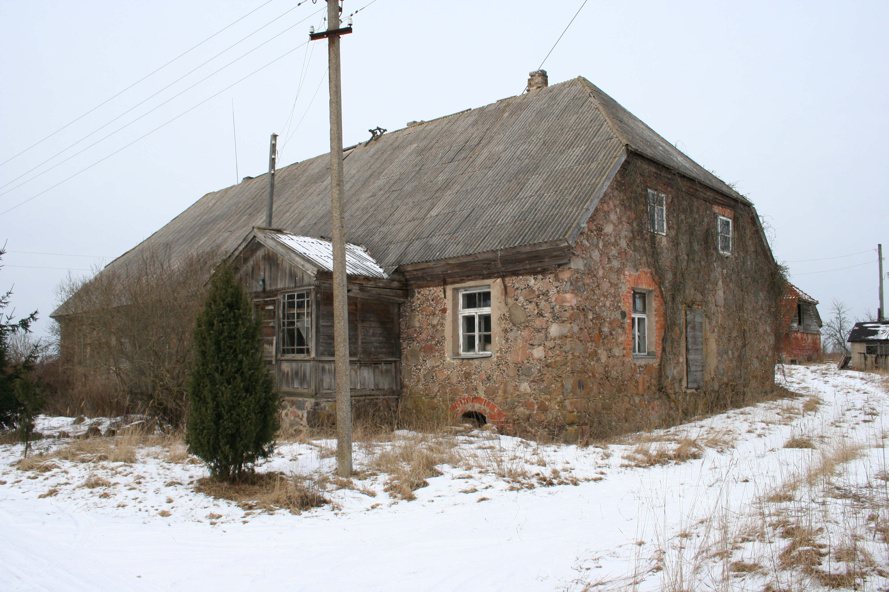 Medzes muižaLatviešu: Medze Manor